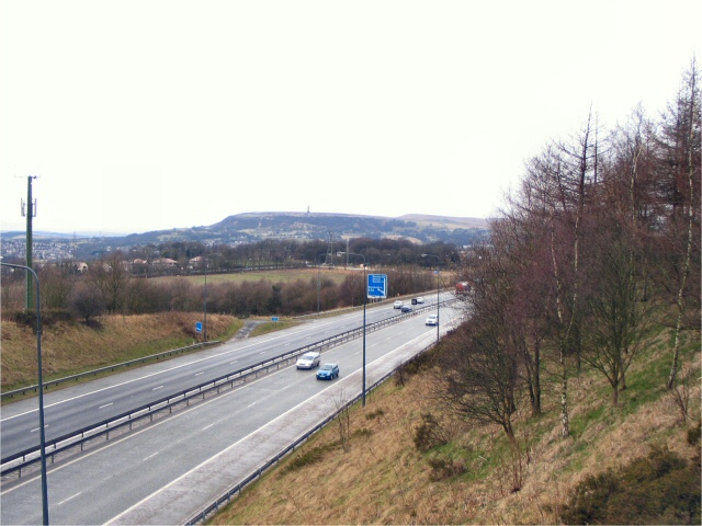 Looking northwest up the M66 from the road bridge at Baldingstone. Junction 1 exit to Summerseat and Ramsbottom is just ahead. The monument on the distant hill is Peel Tower, to the northwest.